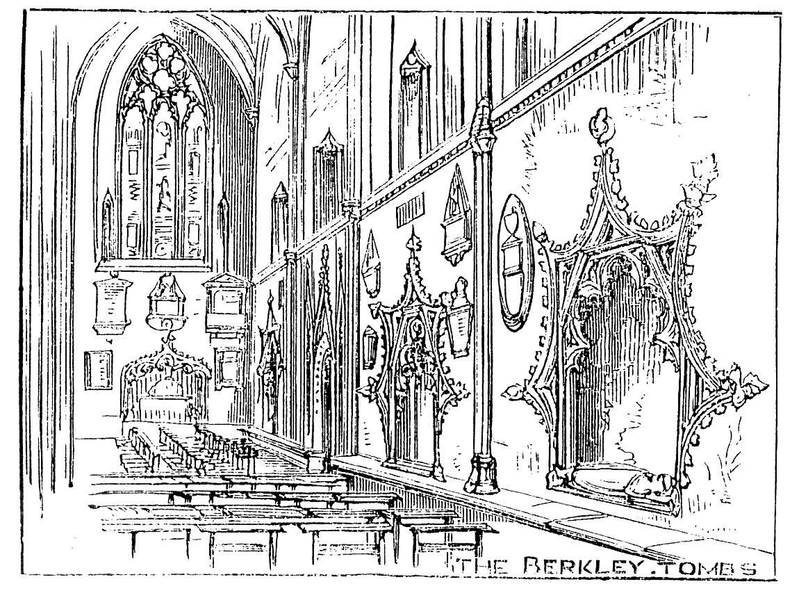 Berkley Tombs in Bristol. Cropped from Image:Bristol 1873 - Bottom half.png. (Original title "The Bristol Music Festival: Views in Bristol")